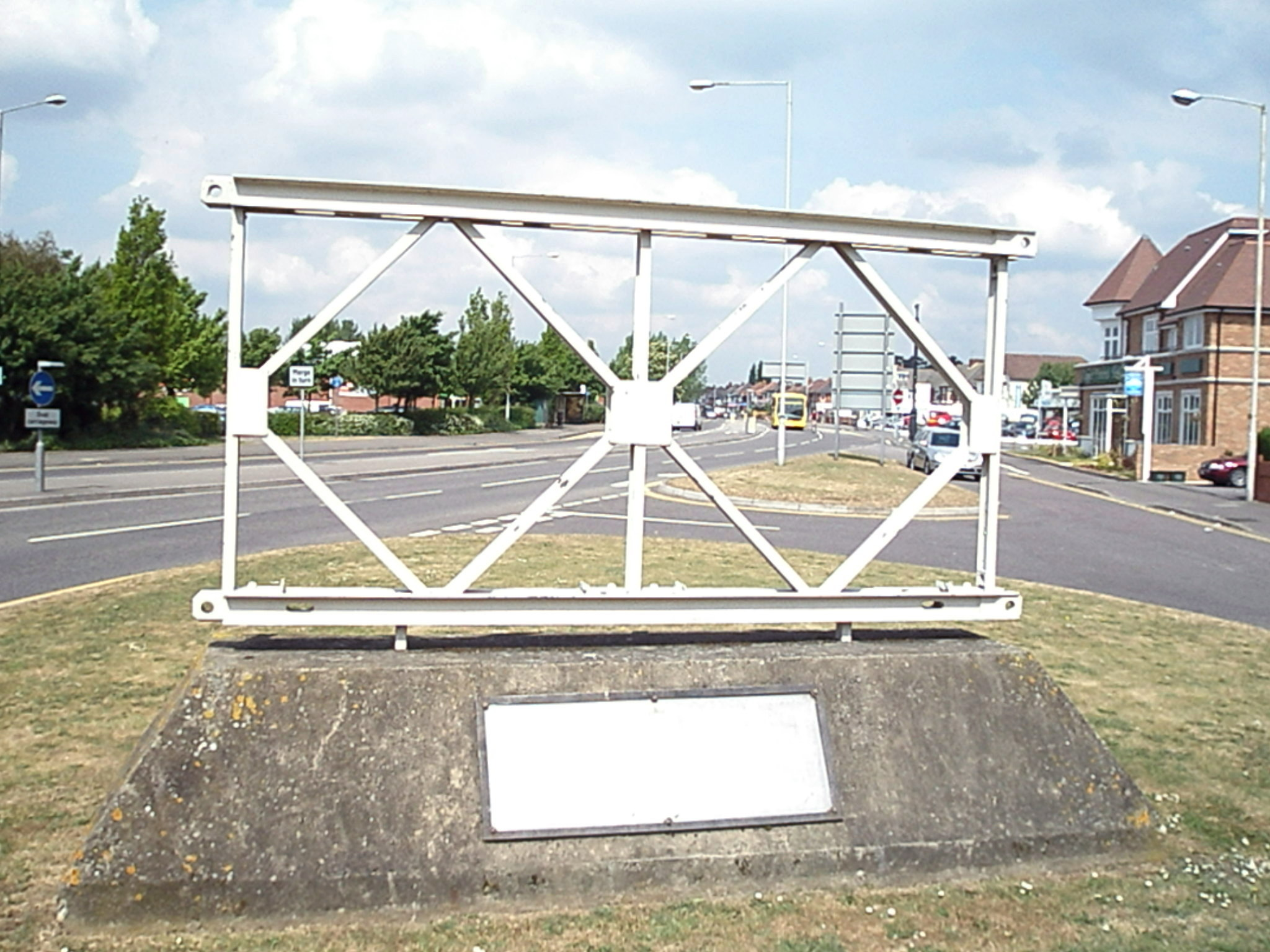 Commemorative piece of a Bailey Bridge opposite the site where it was invented and manufactured; Military Experimental Establishment, Christchurch, Dorset.